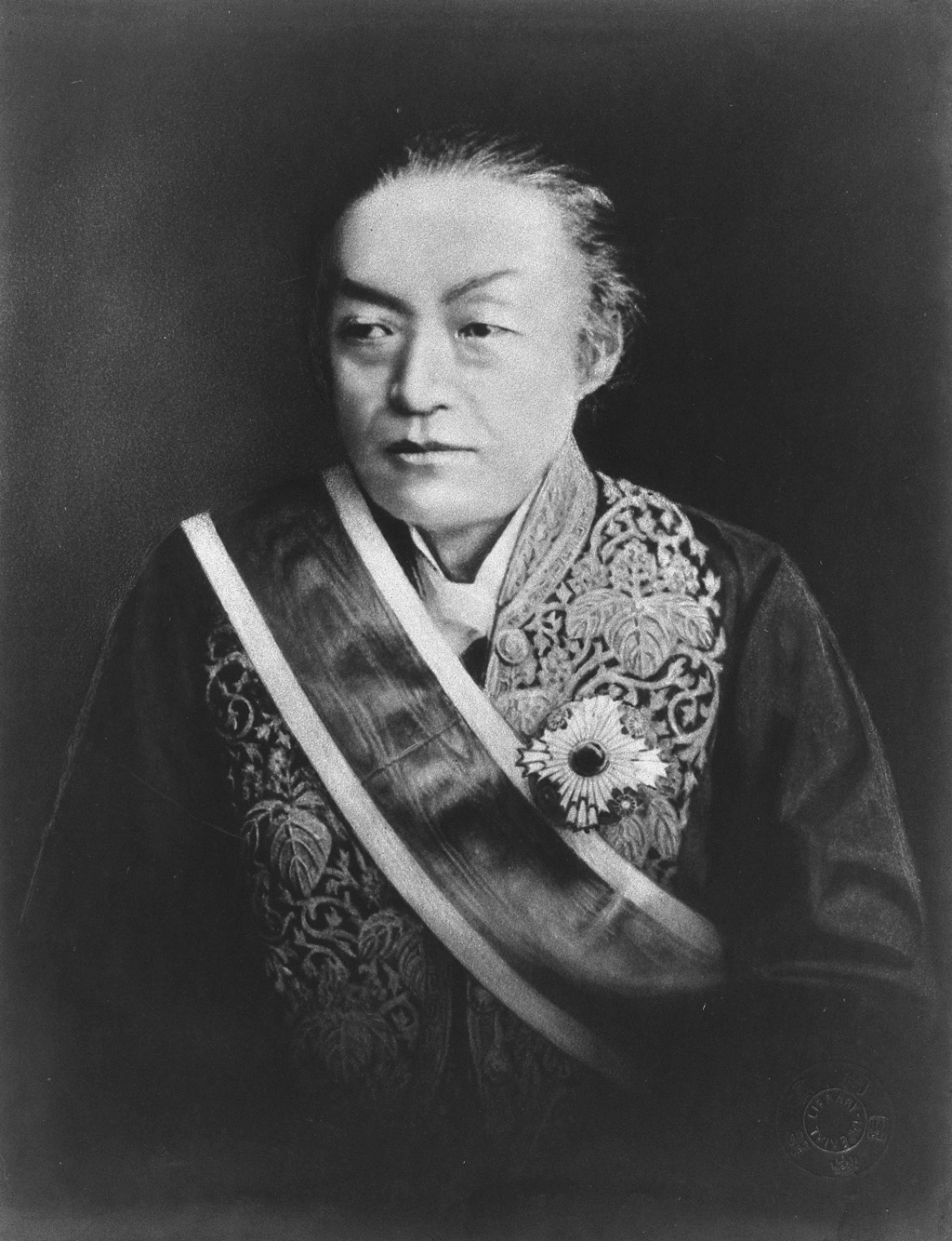 Portrait of Iwakura Tomomi (岩倉具視, 1825 – 1883)